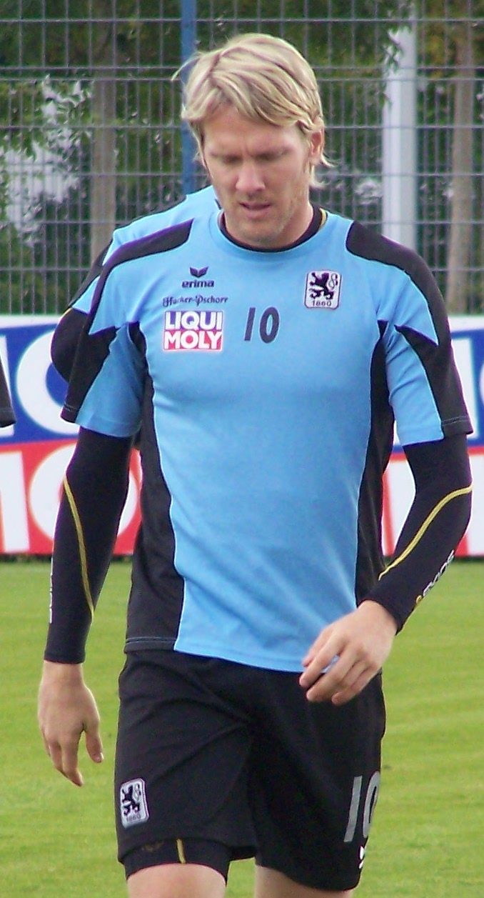 Sascha Rösler, 1860 munich, training